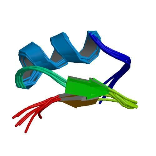 Pandinotoxin